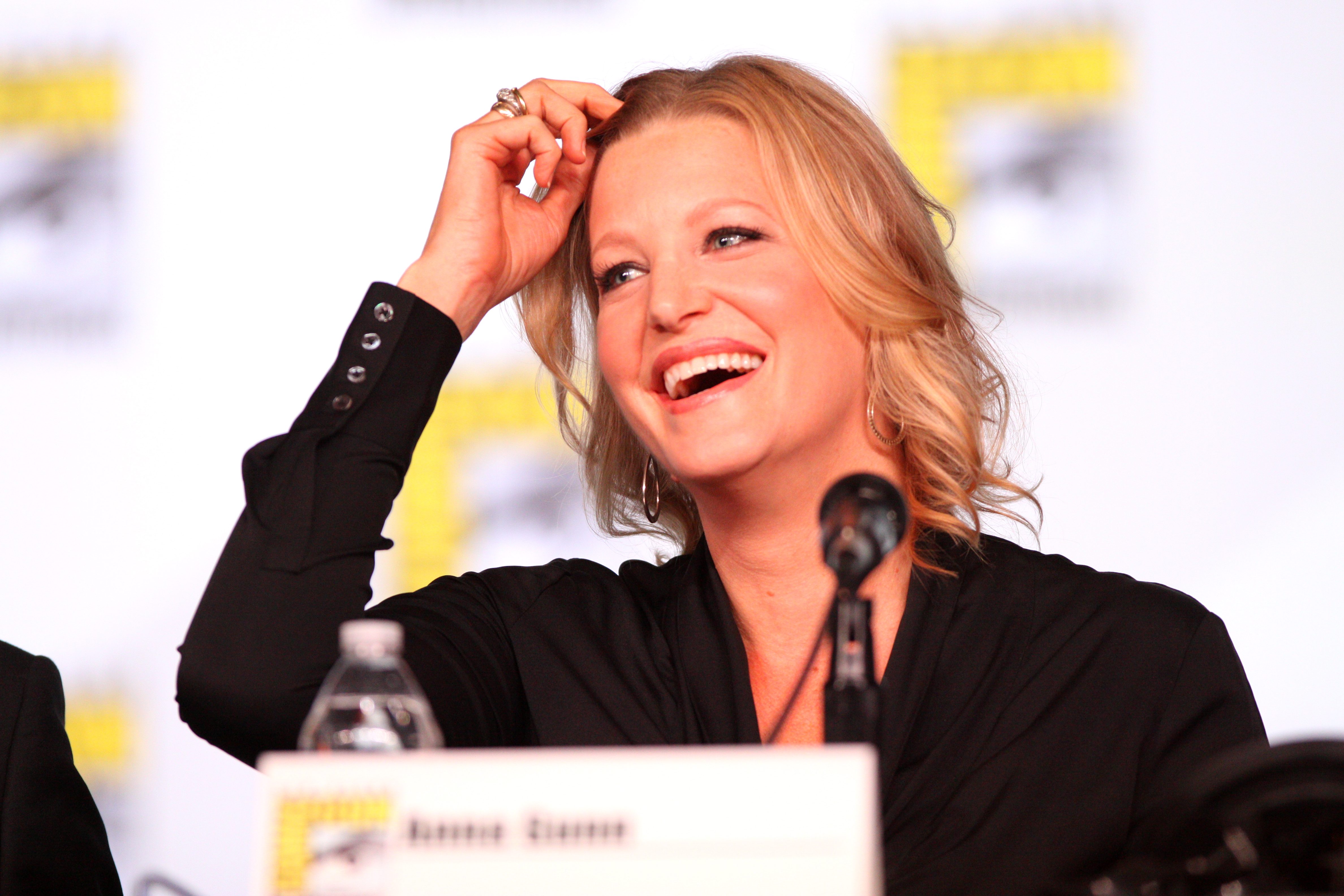 Anna Gunn speaking at the 2012 San Diego Comic-Con International in San Diego, California.